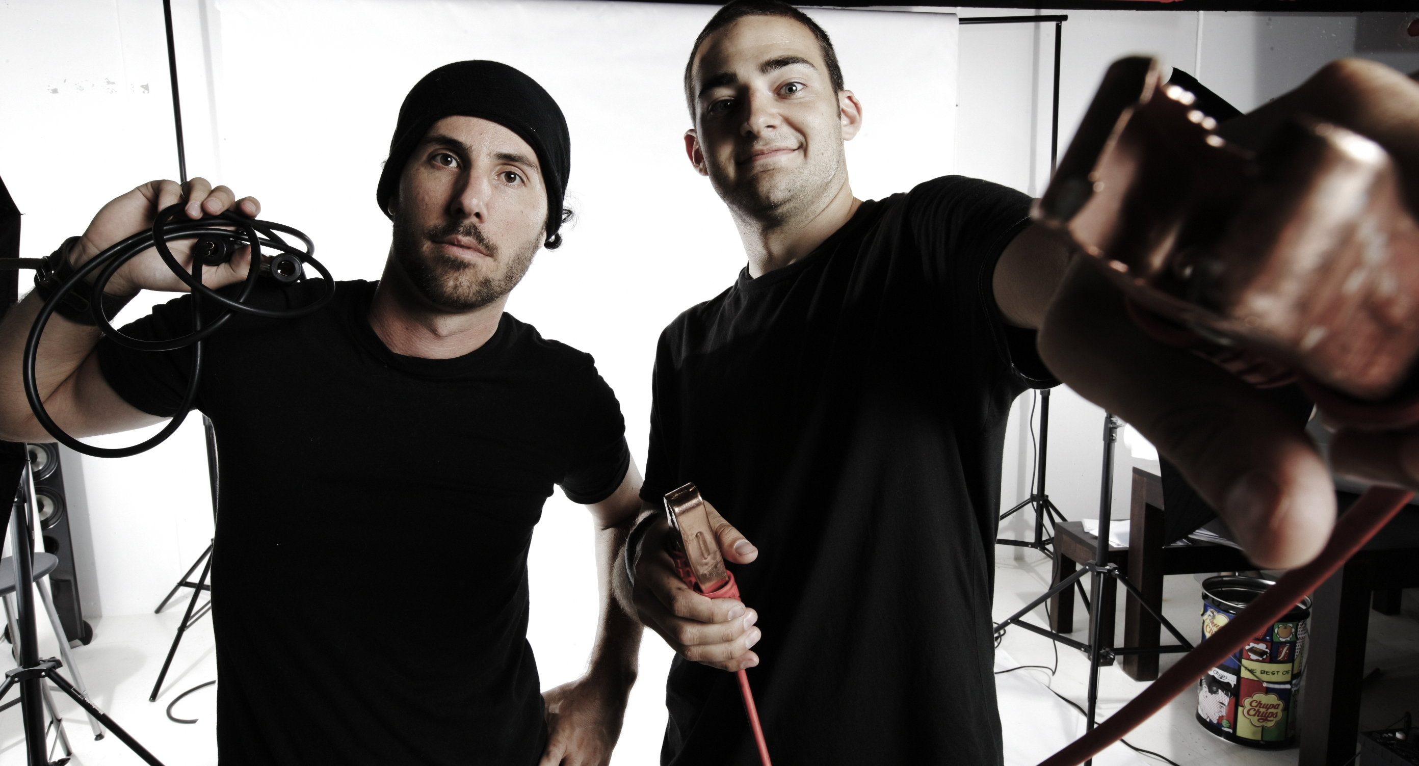 Blair Joscelyne(left) and Martin Mulholland(right) of the YouTube web based series Mighty Car Mods